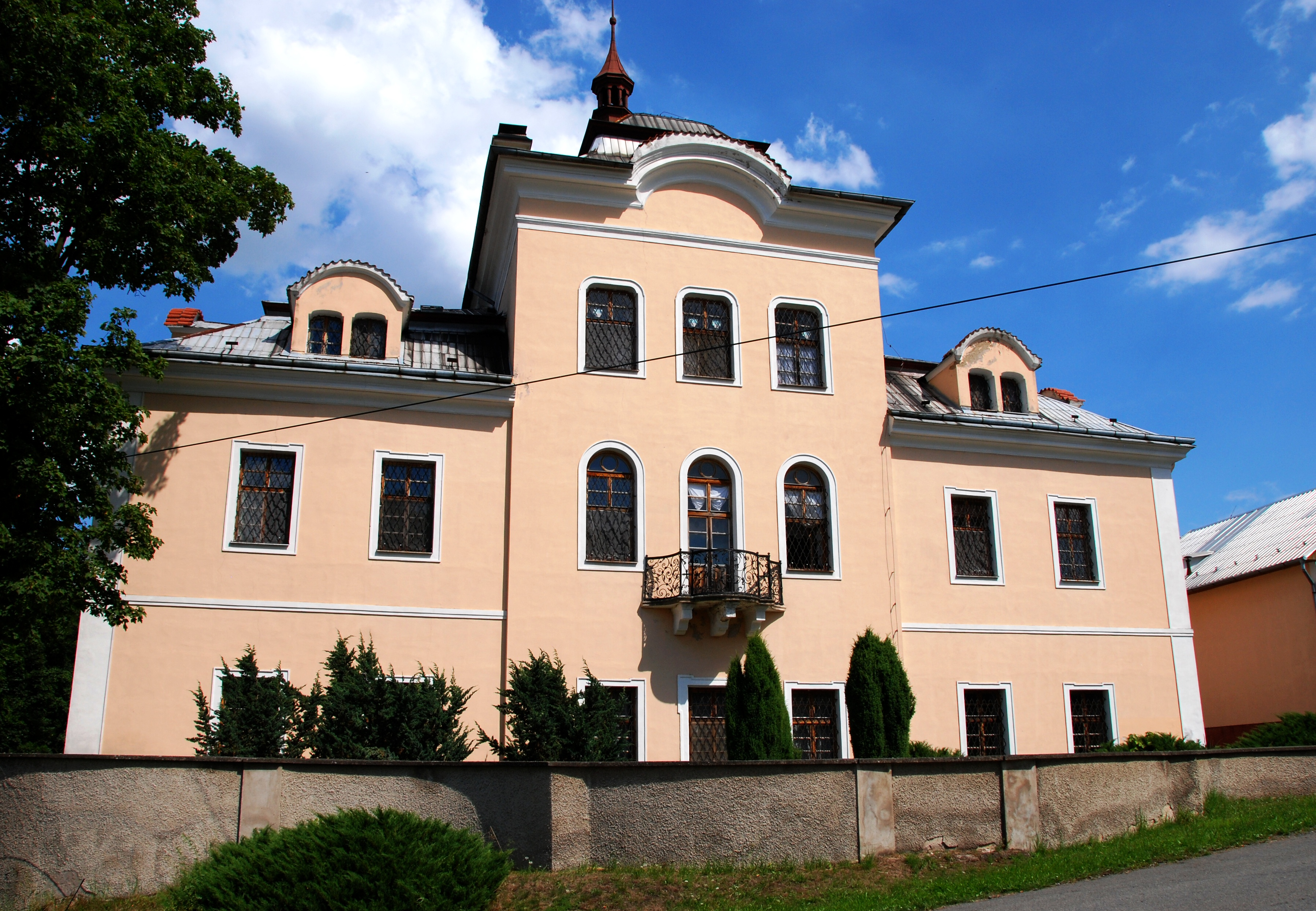 This photograph was taken within the scope of the second year of the 'Czech Municipalities Photographs' grant. Zámek